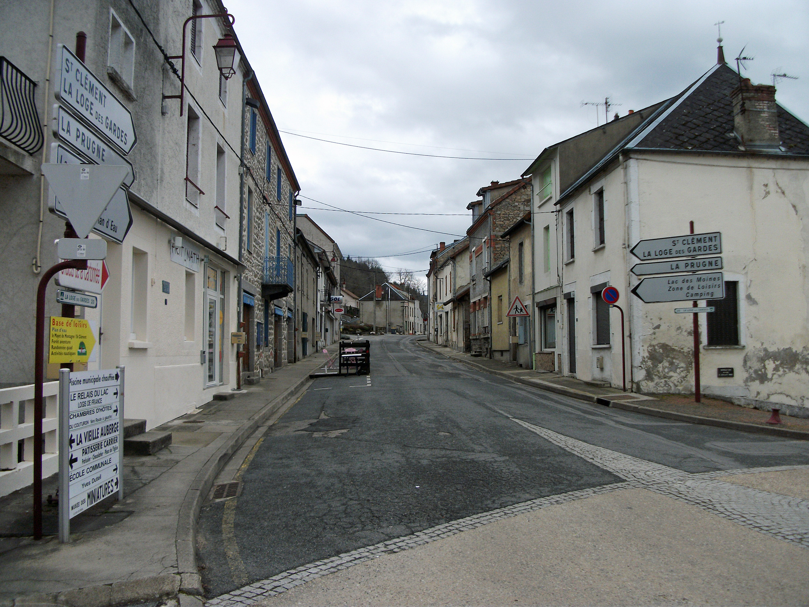 Road towards La Loge des Gardes, in Le Mayet-de-Montagne (Allier) [9965]